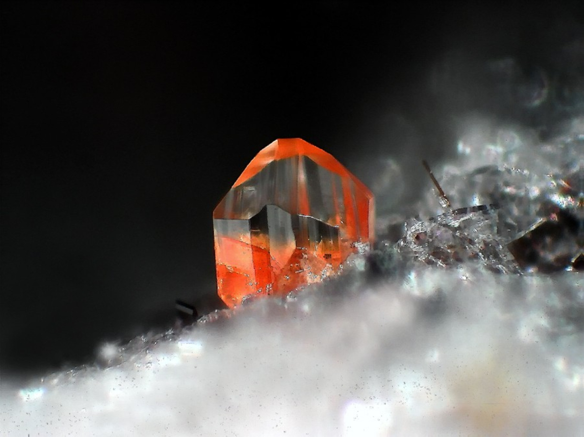 Forsterite, orange/colourless (0.4 mm wide) - Locality: Wannenköpfe, Ochtendung, Eifel region, Germany